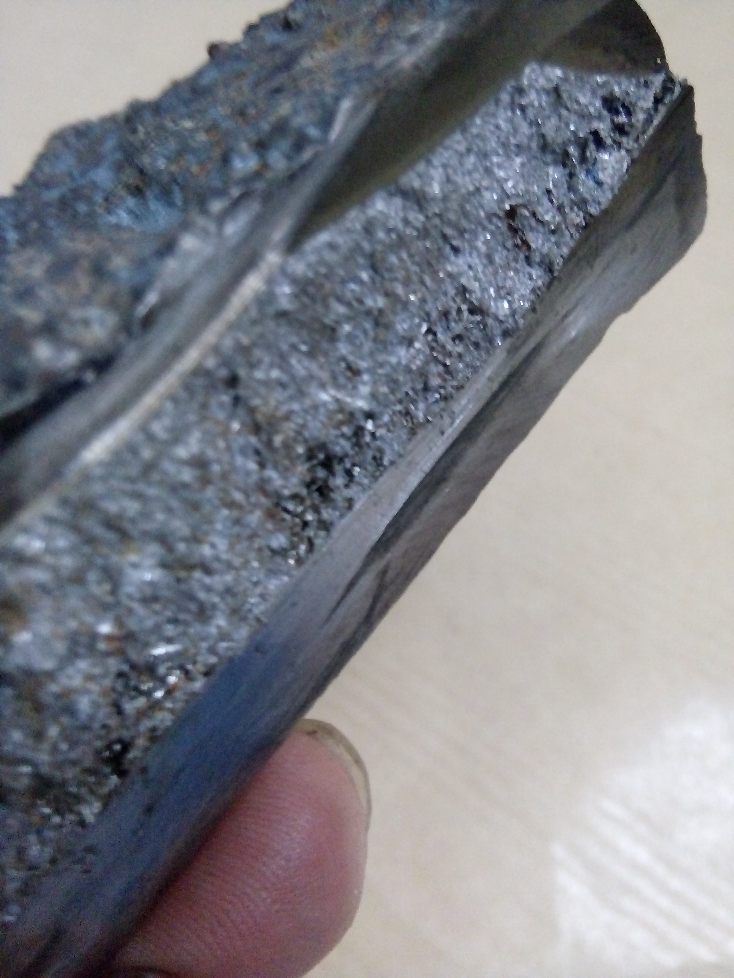 Nickel Mako adalah produk Ferro Nickel Mahkota Konaweeha